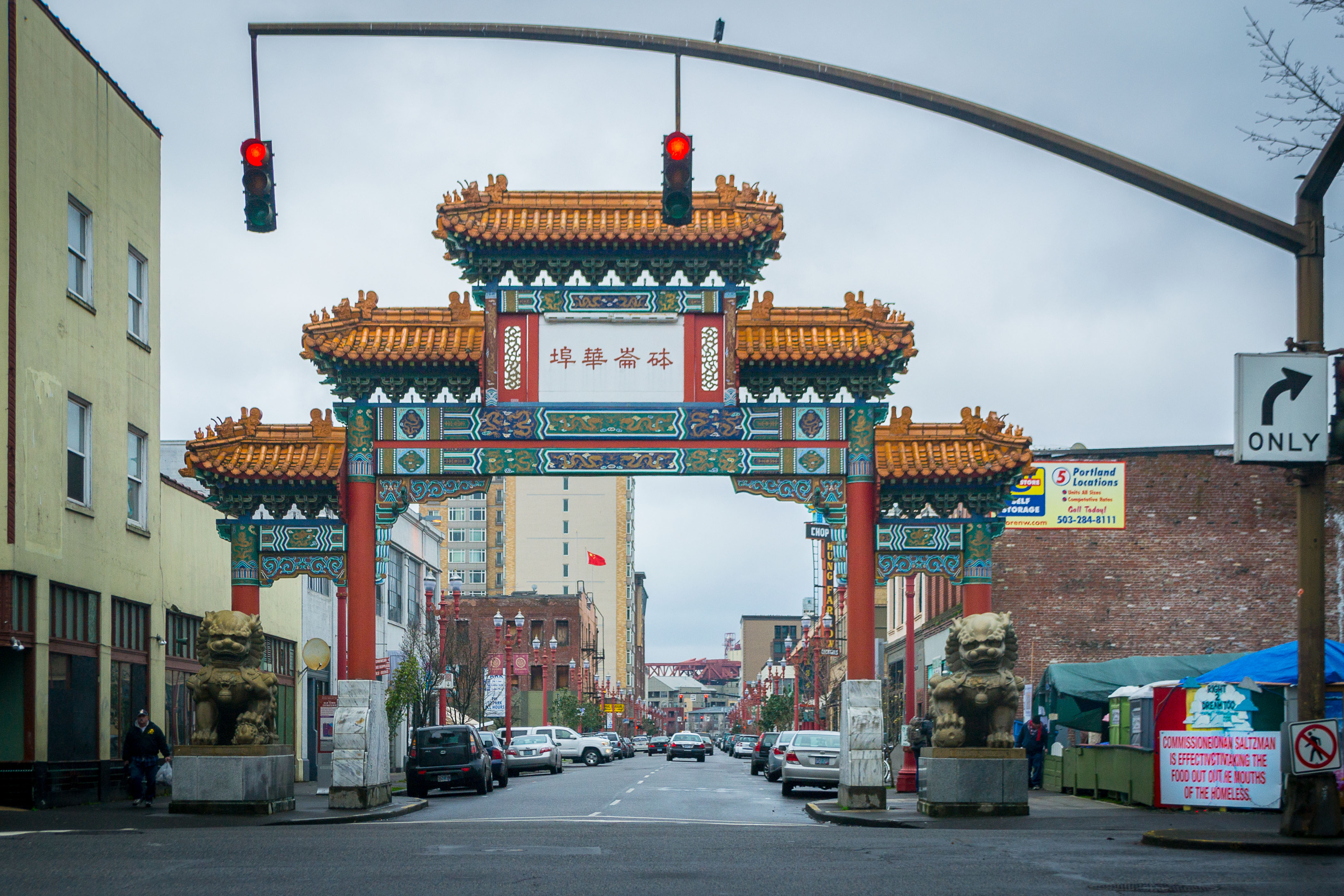 Right 2 Dream Too is a homeless camp near the NW 4th and Burnside Street entrance to Chinatown in Portland, Oregon